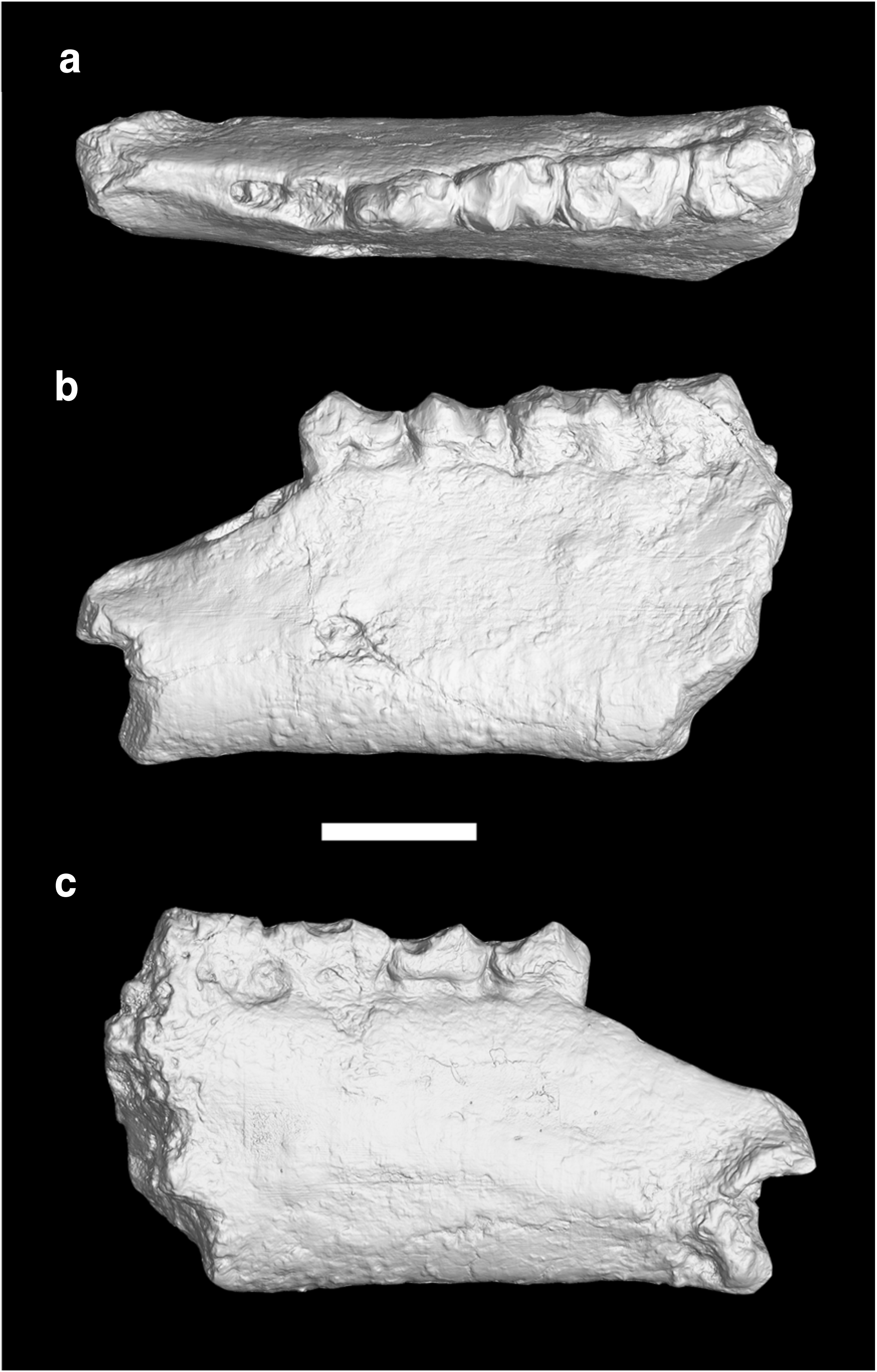 Danjiangia, left mandible of Danjiangia lambdodon with p3-m2 (IVPP V 5349, holotype) in occlusal (a), buccal (b), and lingual views (c); from the Lingcha Formation, Hunan Province, China, Lower Eocene; Scale: 1 cm